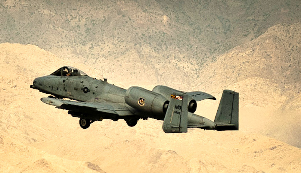 A-10 Thunderbolt II assigned to the 104th Expeditionary Fighter Squadron, flies past a U.S. Air Force MC-12 Liberty assigned to the 4th Expeditionary Reconnaissance Squadron, while taking off at Bagram Airfield, Afghanistan, June 28, 2012. The 455th Air Expeditionary Wing’s motto ‘Quaerimus et Perdimus’ (Seek and Destroy) represents its commitment to providing reconnaissance and attack capabilities to coalition ground forces in Afghanistan. (U.S. Air Force photo/Capt. Raymond Geoffroy)